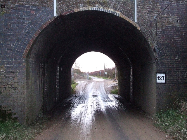 Site of Great Train Robbery - Bridego Bridge close-up. This is a view through the tunnel-like arch of Bridge 127 on the West Coast Main Line, also known as Bridego Bridge. On the night of 8th August 1963 this was the setting for the infamous Great Train Robbery. See also 1058897 For the view in the opposite direction see 1058912